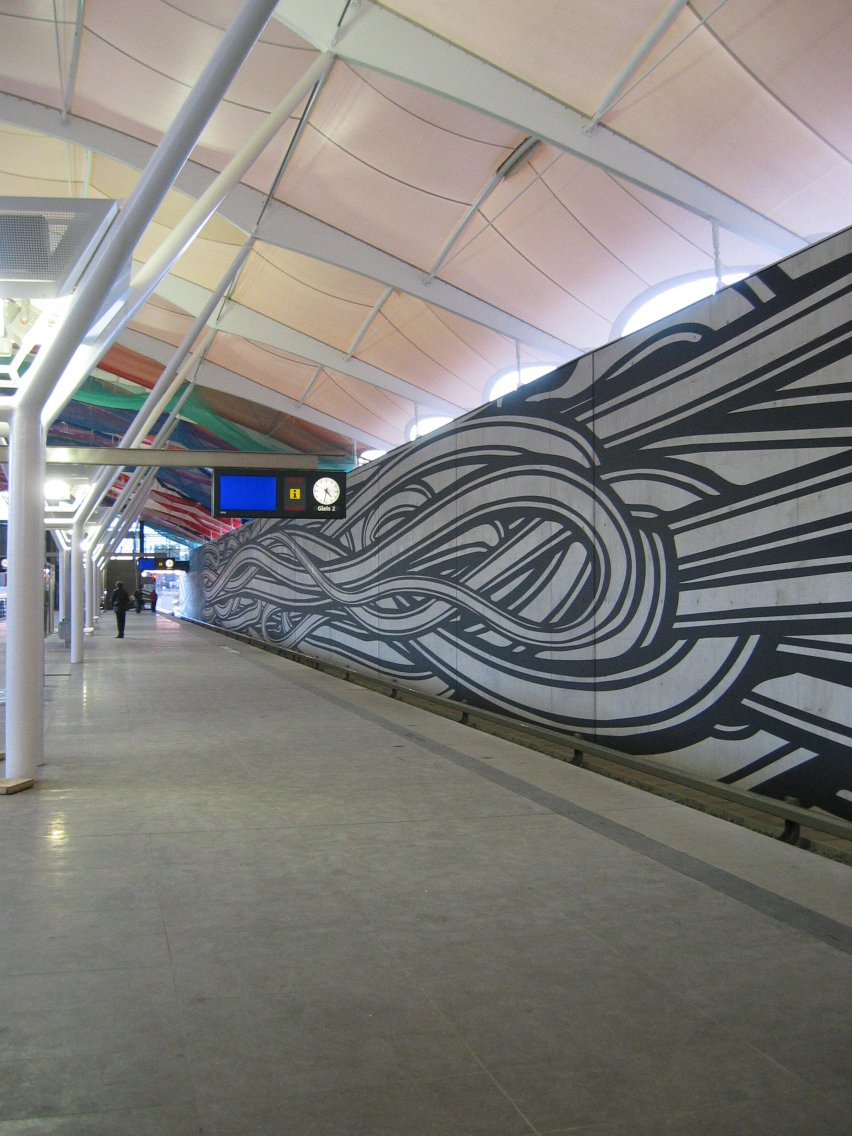 Munich subway station Fröttmaning (U6)